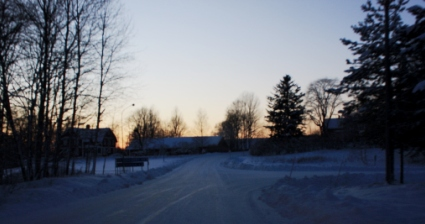 galsjo